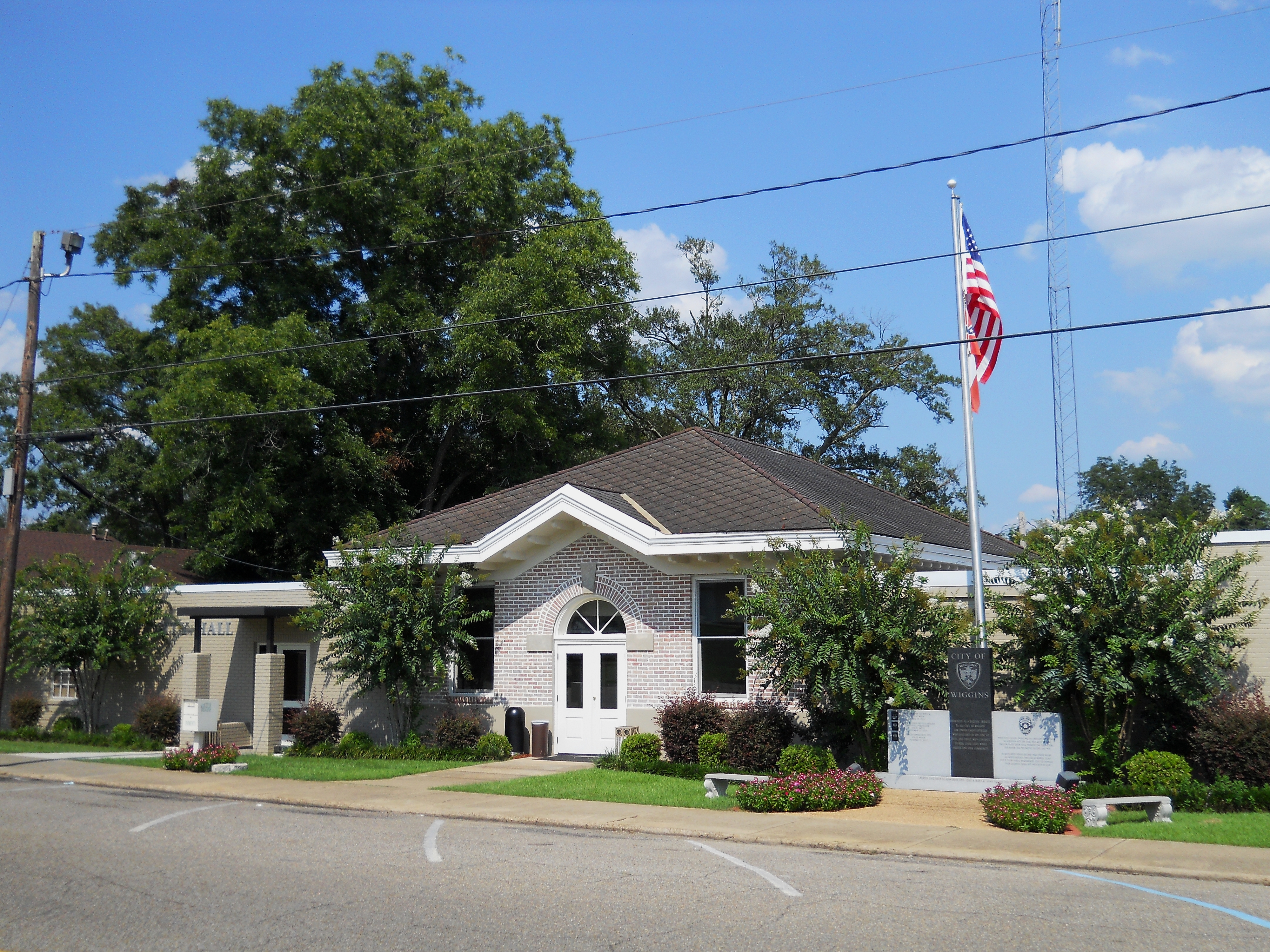 City Hall in Wiggins, Stone County, Mississippi, USA